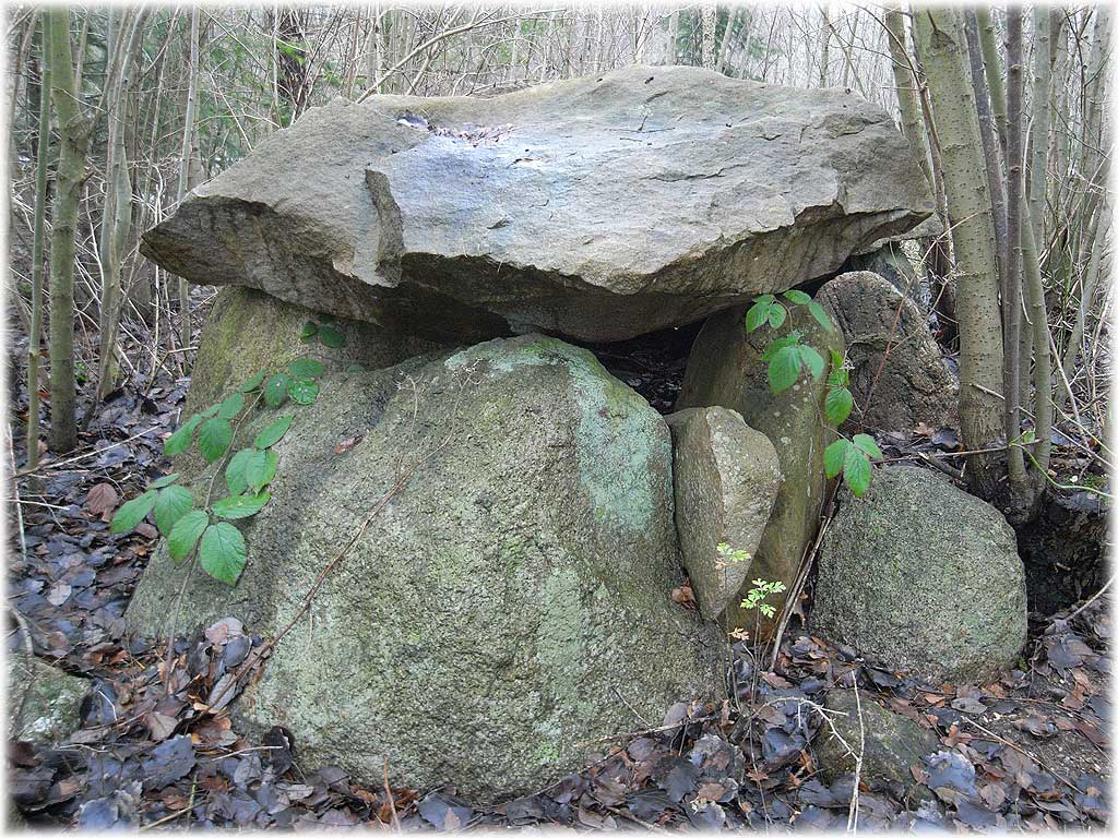 Chambered Tomb Räuberhauptmannsberg Wassersleben